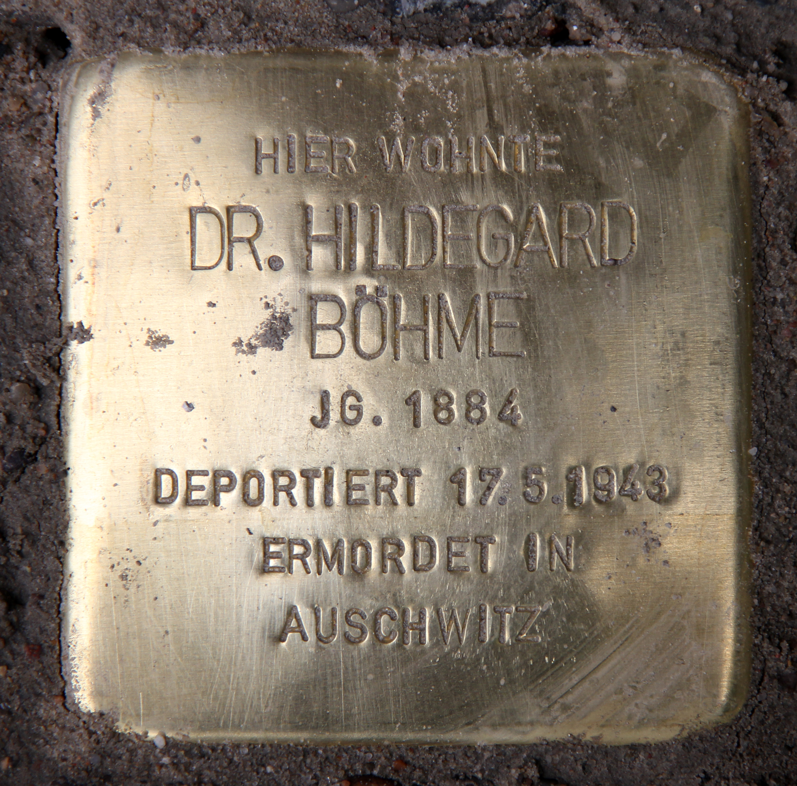 "Stolperstein" (stumbling block), Hildegard Böhme, Pariser Straße 18, Berlin-Wilmersdorf, Germany